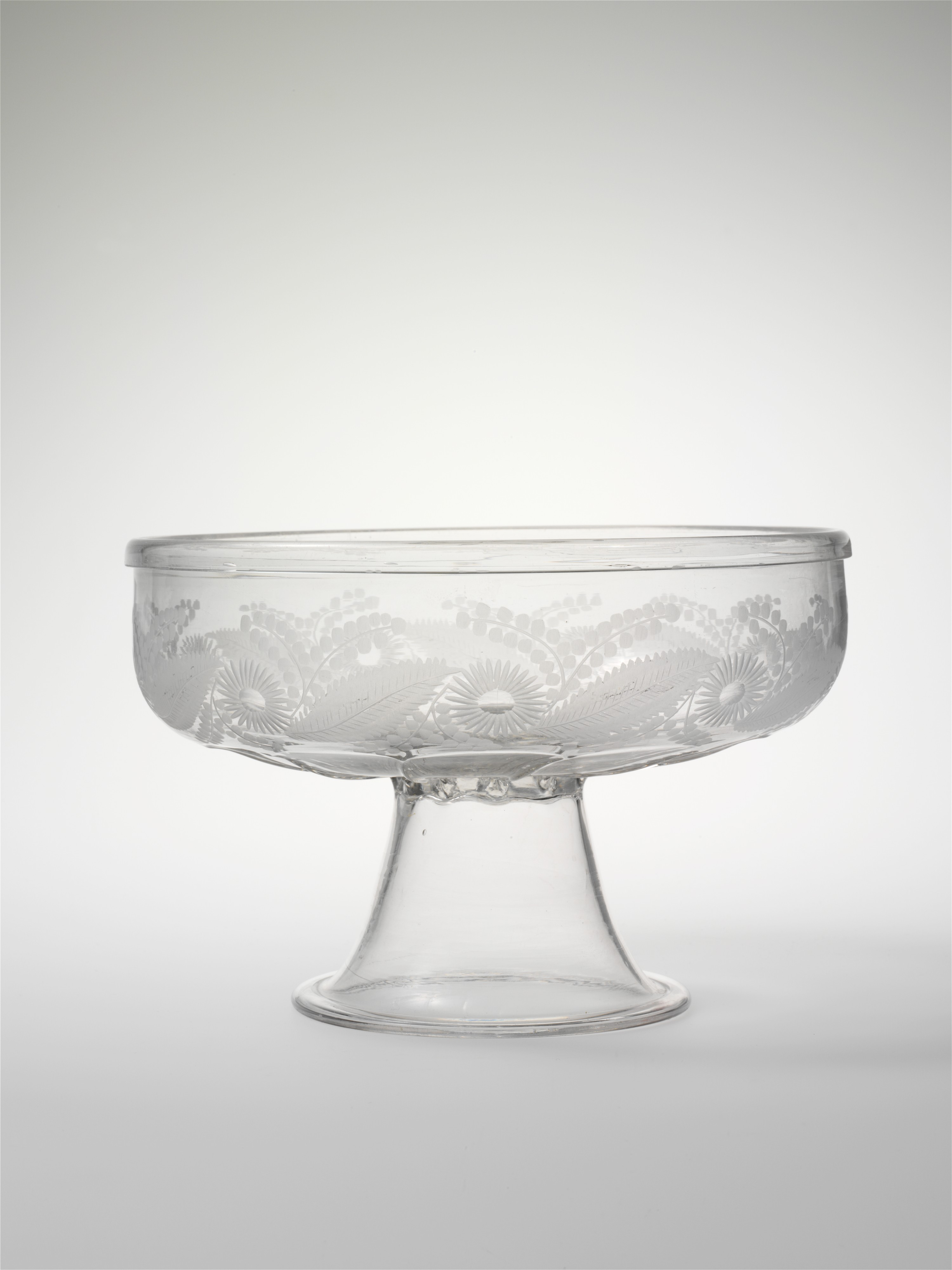 American; Compote; Glass